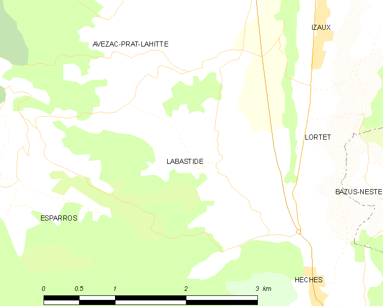 Map of French municipality